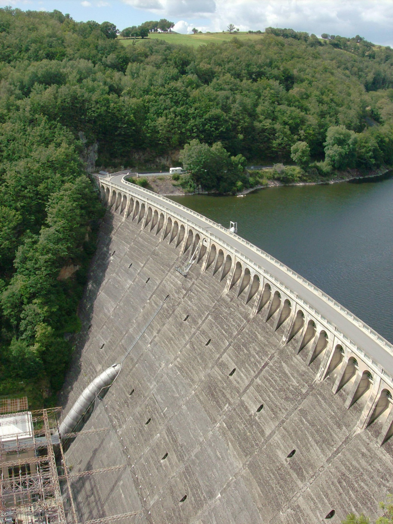 The hydroelectric Sarrans Dam in the river Truyère (Aveyron department, France).